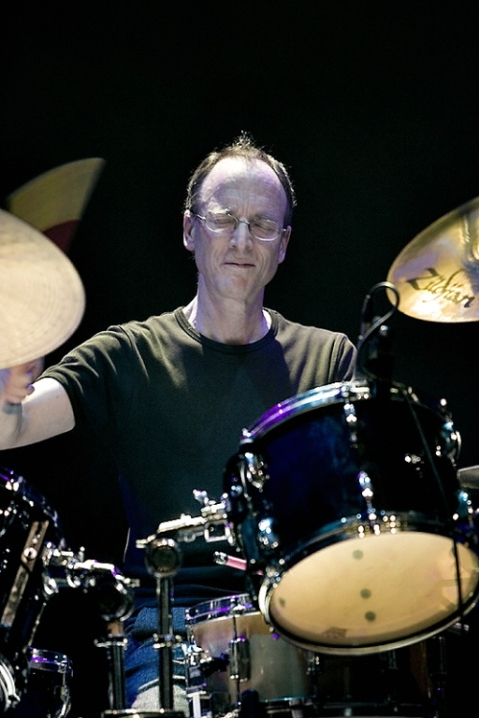 Chris Cutler with the Peter Blegvad Trio performing at a Rock in Opposition Festival in Southern France in April 2007